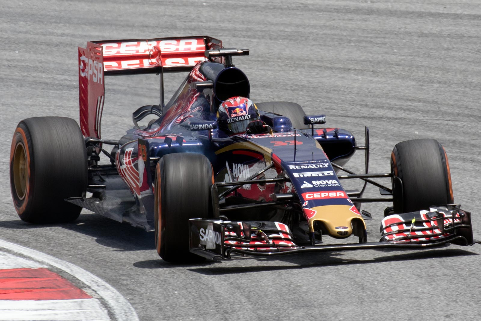 Formula One 2015 Rd.2 Malaysian GP: Max Verstappen (Toro Rosso)